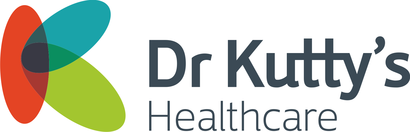 Dr Kutty's Healthcare Logo